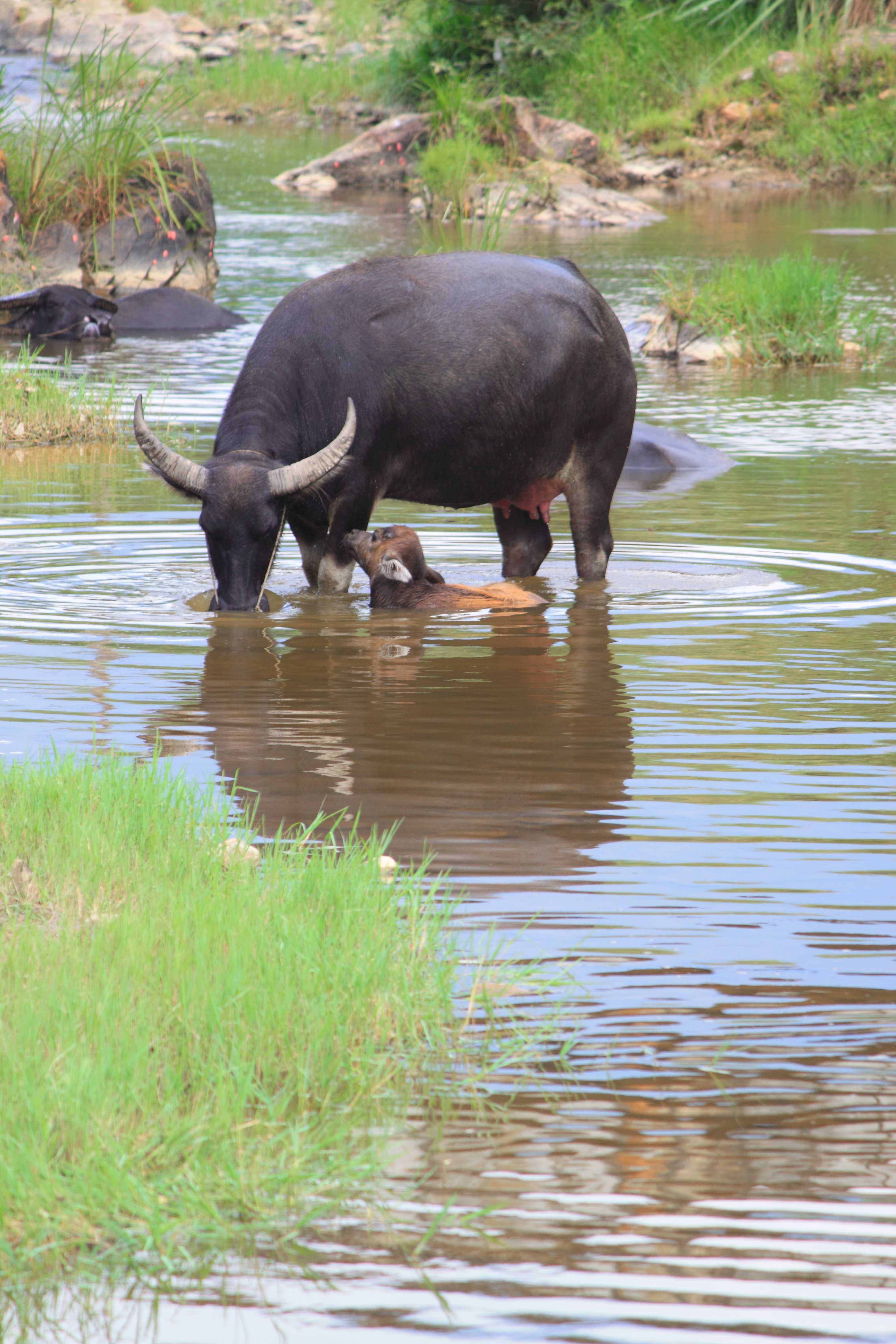 Water buffalo，in Wufu，Wuyishan City, Fujian, China.